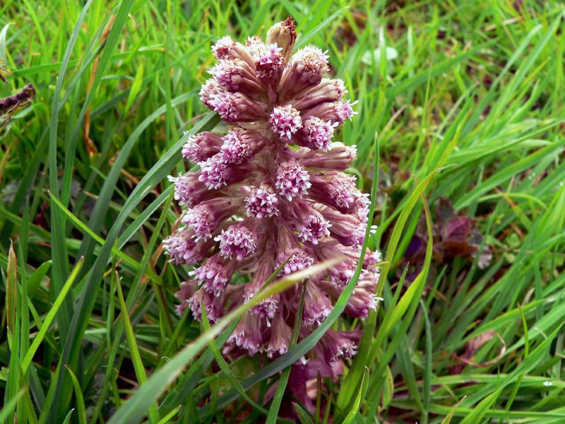 This is growing alongside a stream in Somerset. About 4 inches tall, I couldn't see any leaves associated with it. The only thing I can find looking similar is Bistort, but this is too far south and too early.